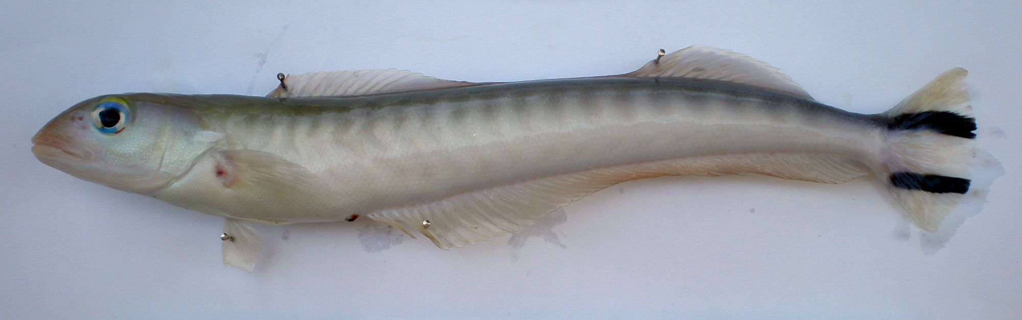 Malacanthus brevirostris. From off Nouméa, New Caledonia